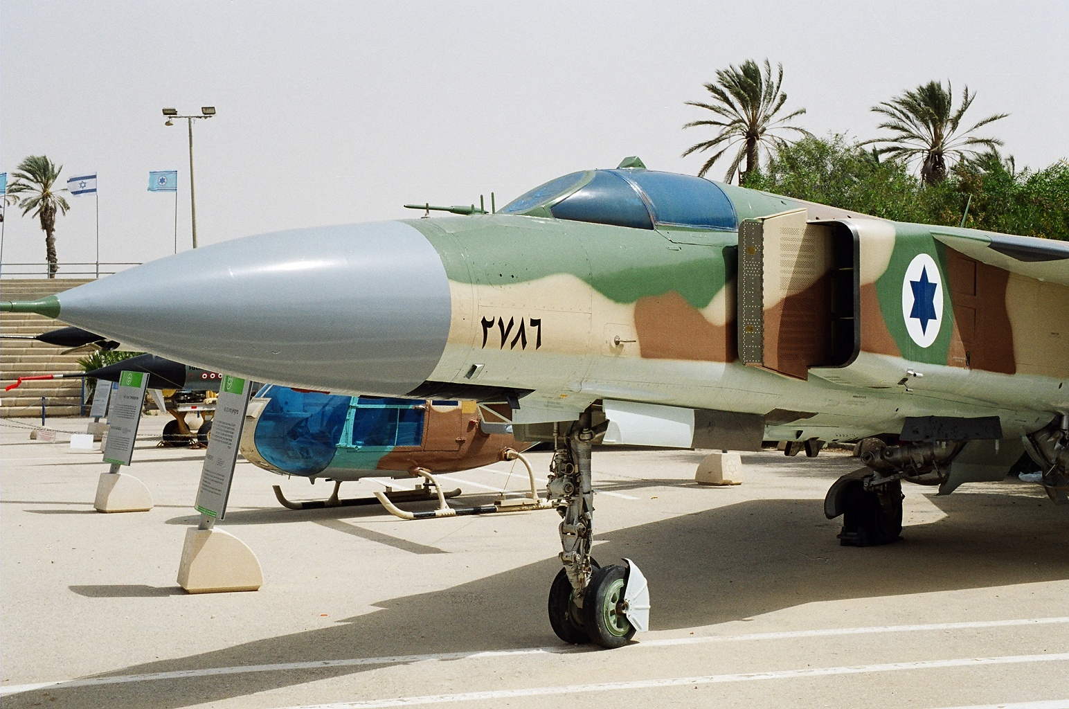 Former Syrian Air Force MiG-23 (number 2786) in the Israeli Air Force Museum in Hatzerim. Defected October 10, 1989.